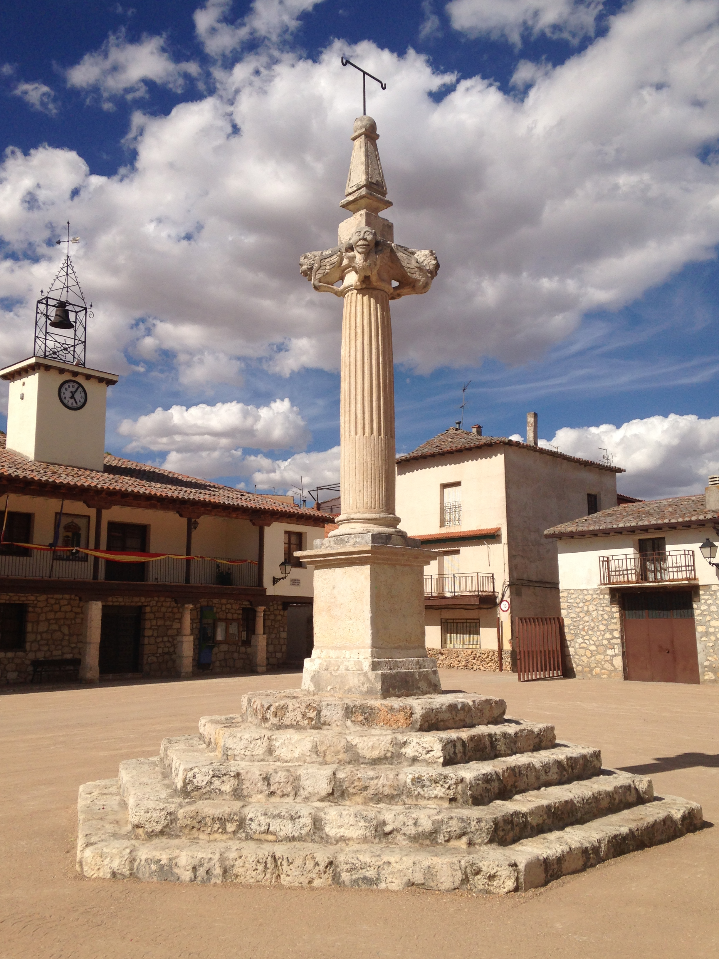 Plaza Mayor, Ayuntamiento y Picota